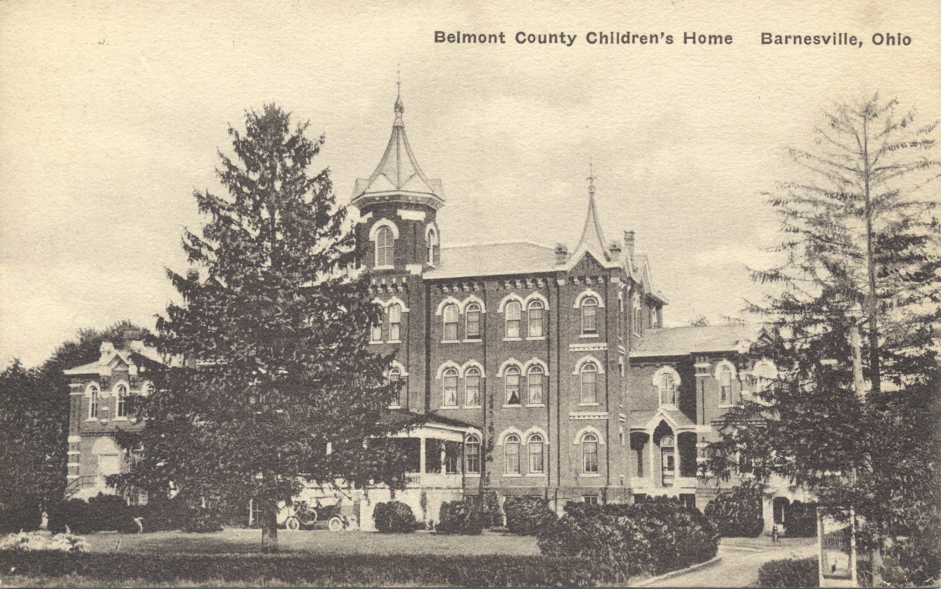 Persistent URL: Subject (TGM): Orphanages; Ohio--Barnesville